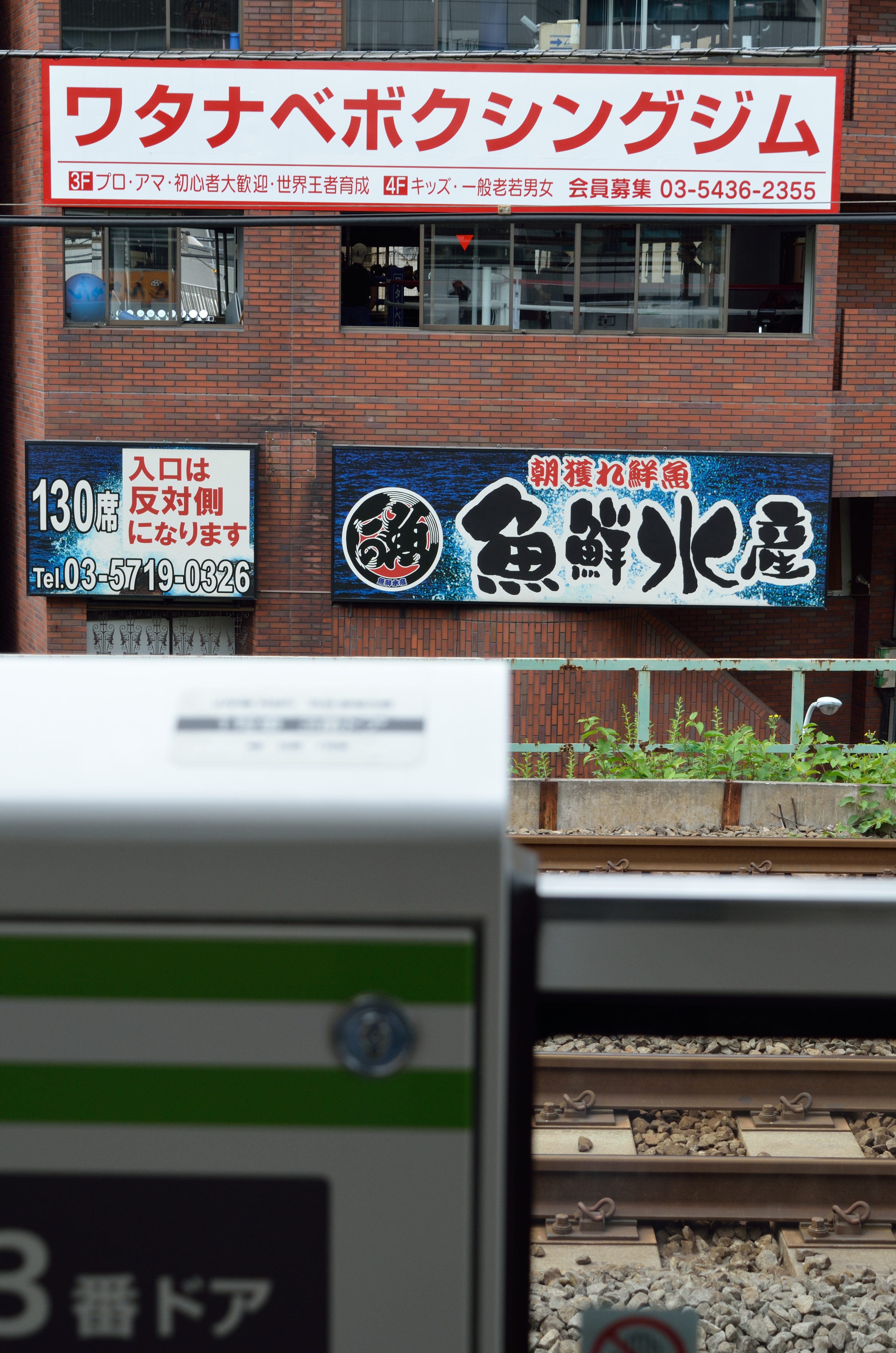 Watanabe Boxing Gym Building at Tokyo